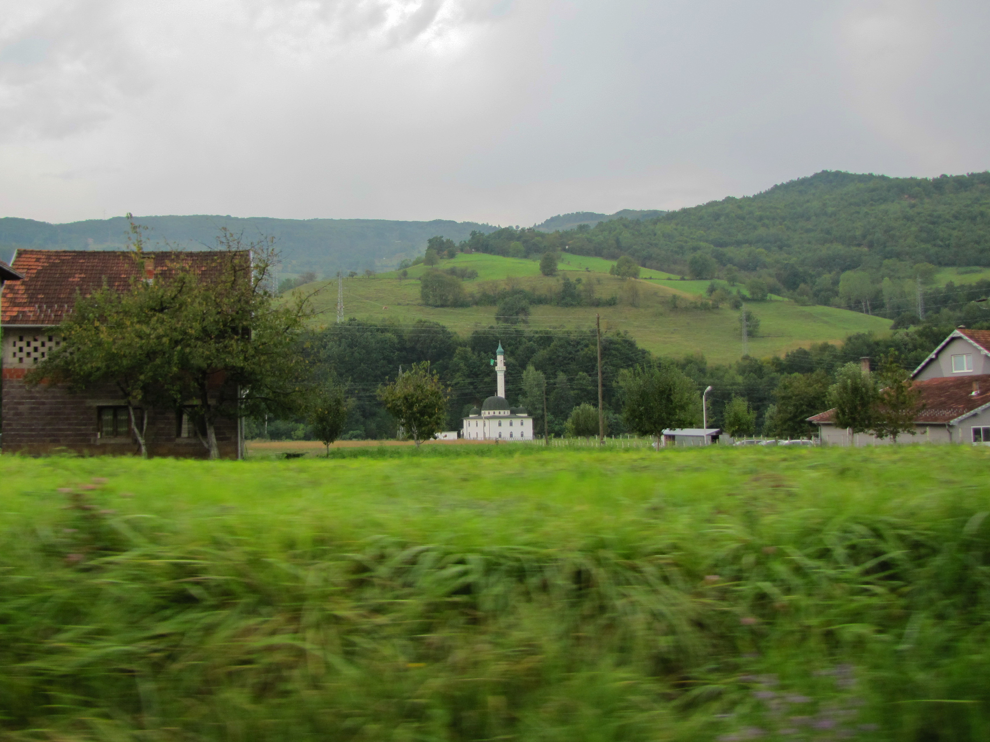 Mosque in Gornja Jošanica (Lukavsko Goševo).